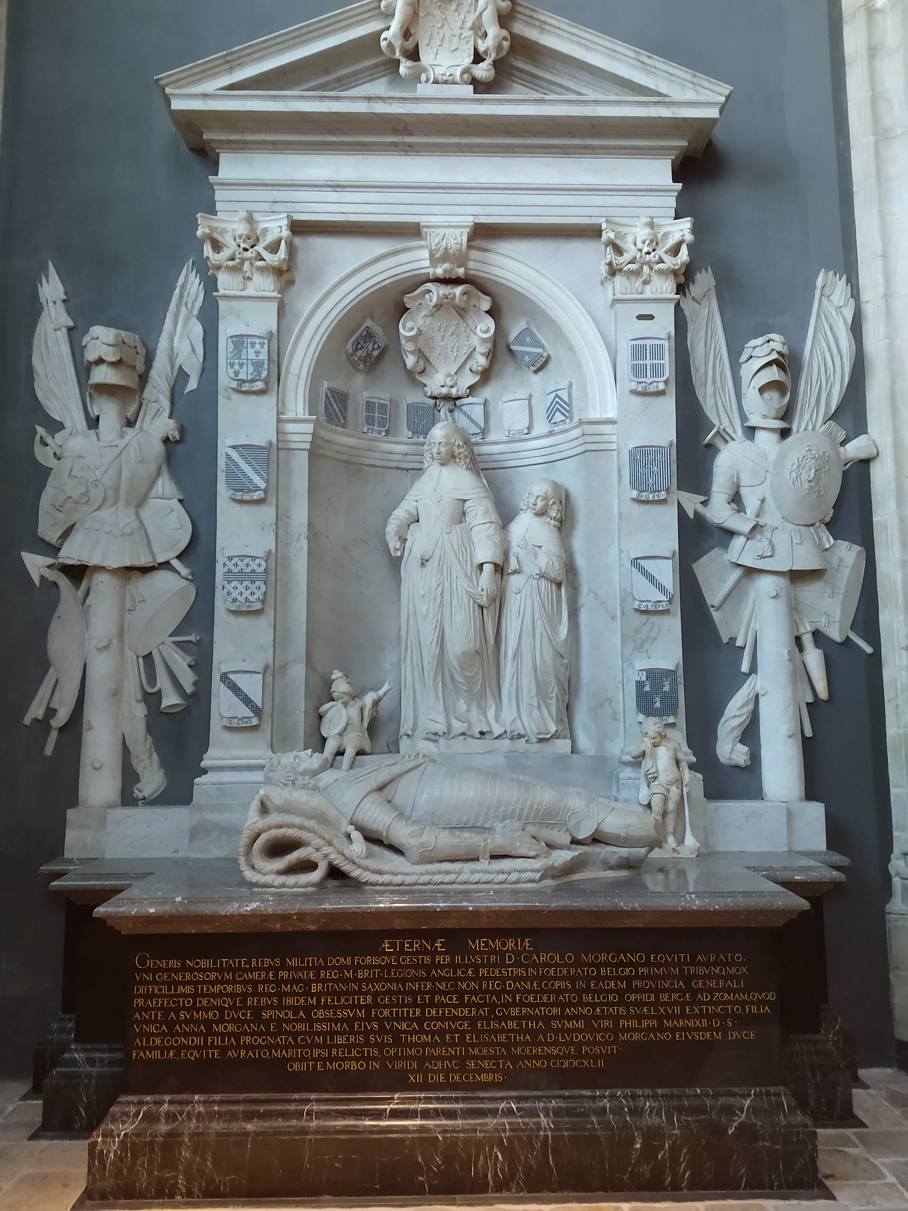 Tomb of Charles Morgan (1575-1642) in the Saint-Gertrudis church of Bergen op Zoom in the Netherlands. The sculptor was Francois Dieussart. Photo taken on 19th January 2020.